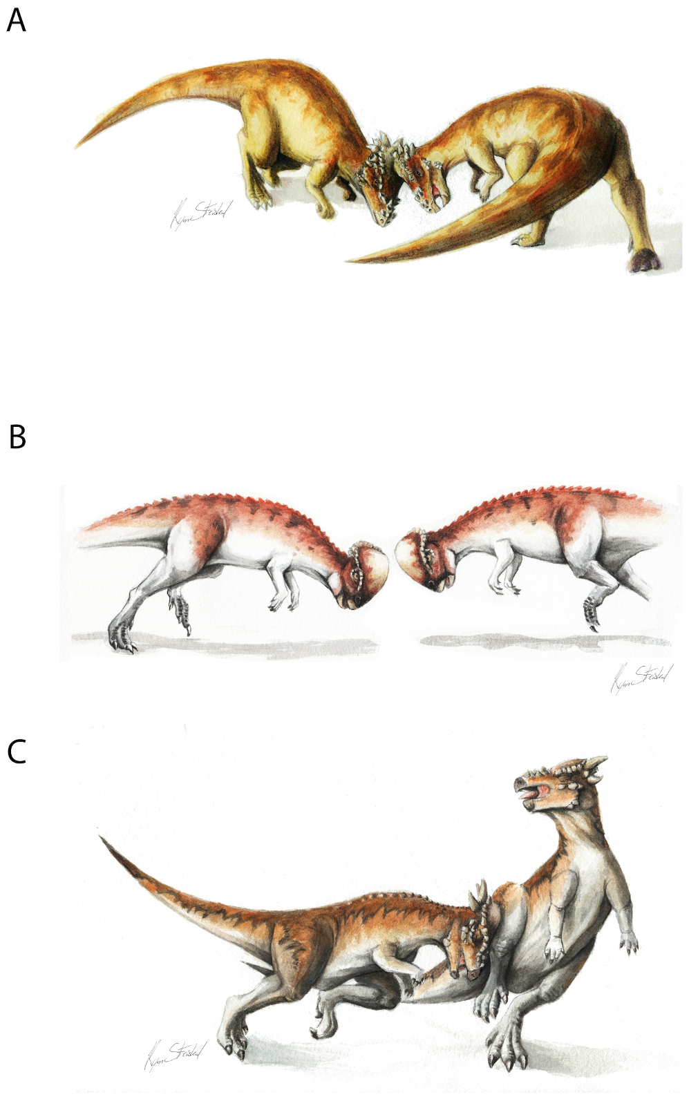 Hypothetical head-to-head interactions among pachycephalosaurids. (A) Bison-like head-shoving in large, broad-domed specimens such as Pachycephalosaurus wyomingensis; (B) Ovis-like clashing in Prenocephale prenes; (C) Capra-style broadside butting in high-domed and large-horned specimens such as subadult Pachycephalosaurus (“Stygimoloch” and “Dracorex”).